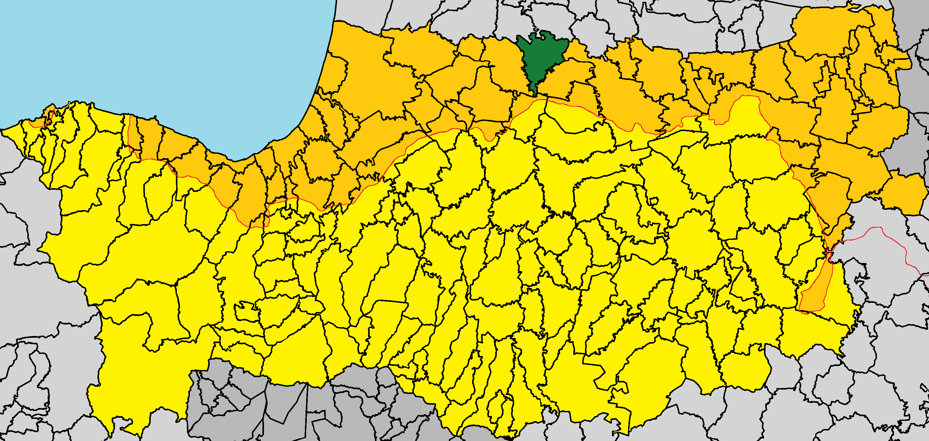 Skylloura in Nicosia District (de jure).